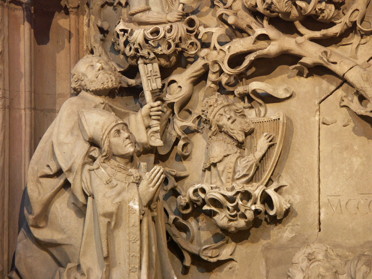 Cathedral St. Peter (Dom St. Peter), Worms, Germany - Tympanum - Tree of Jesse-Detail